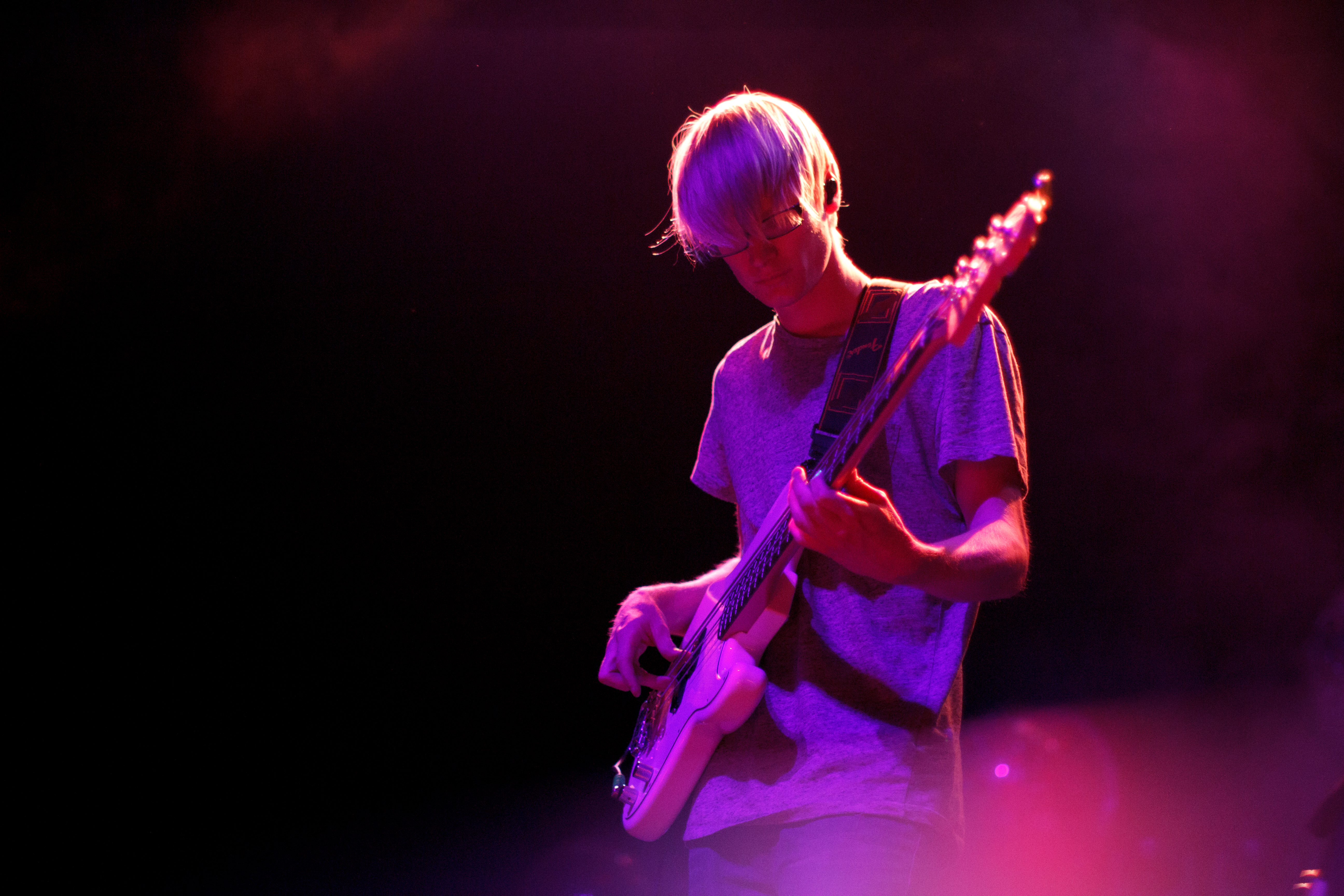 Alt-J member Gwil Sainsbury